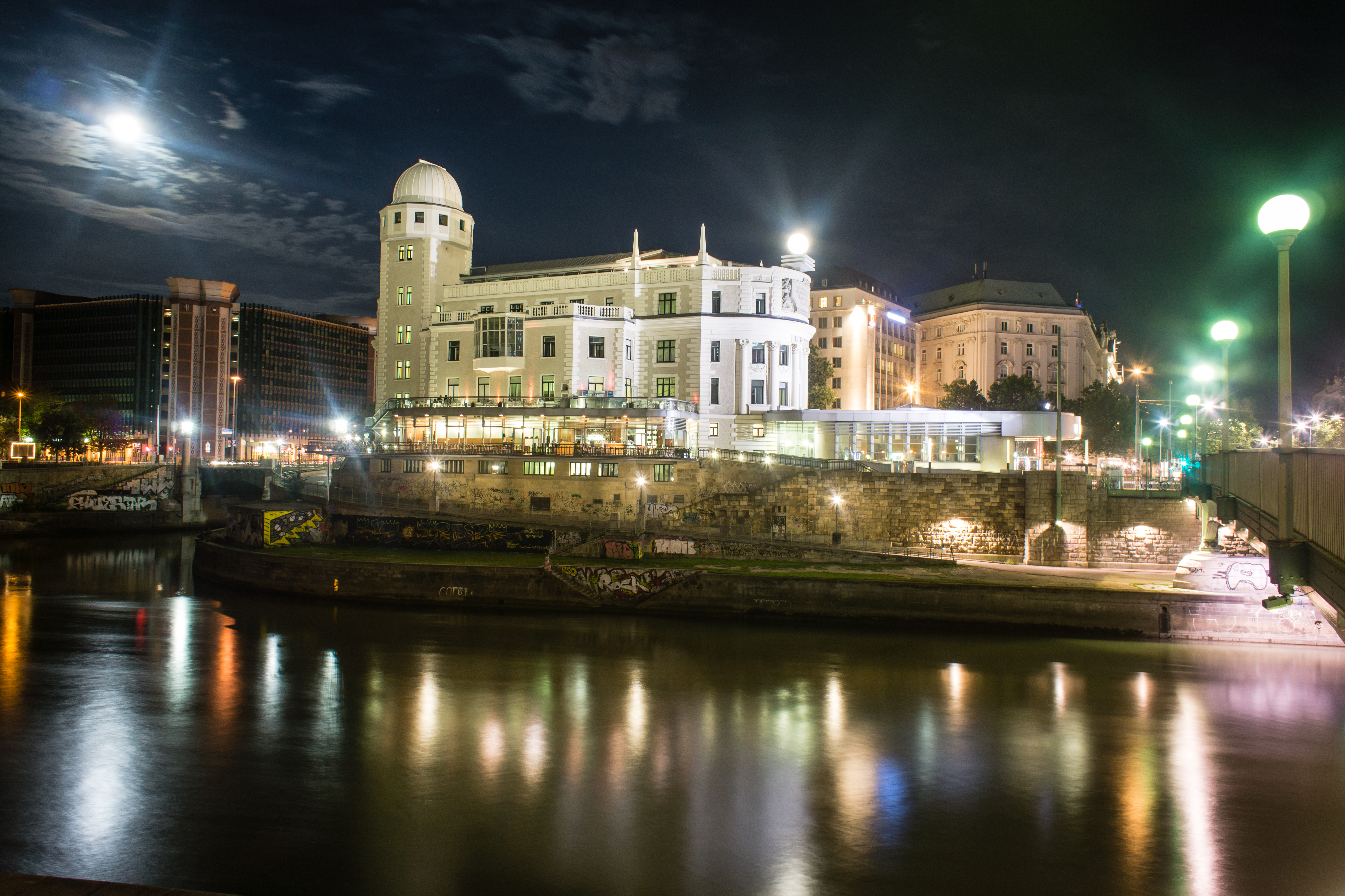 Urania a public educational institute and observatory at night